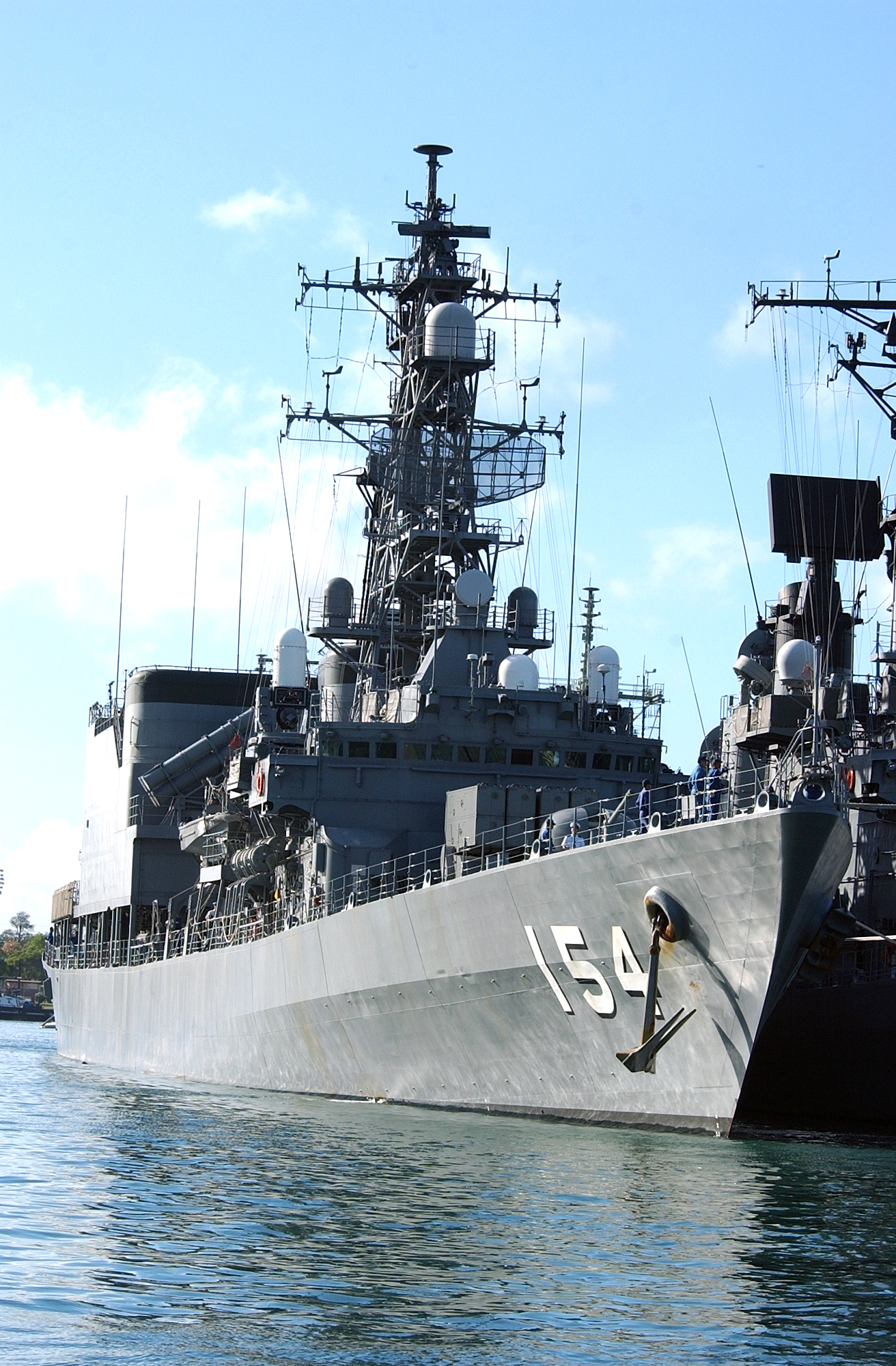 Pearl Harbor, Hawaii (July 2, 2004) — Japanese war ship JDS Amagiri (DD-154) sits moored at Naval Station Pearl Harbor, Hawaii. There are currently four Japanese ships in Pearl Harbor, participating in the multi-national maritime exercise Rim of the Pacific 2004 (RIMPAC). RIMPAC is the largest international maritime exercise in the waters around the Hawaiian Islands. This year’s exercise includes seven participating nations; Australia, Canada, Chile, Japan, South Korea, United Kingdom and United States. RIMPAC is intended to enhance the tactical proficiency of participating units in a wide array of combined operations at sea, while enhancing stability in the Pacific Rim region.